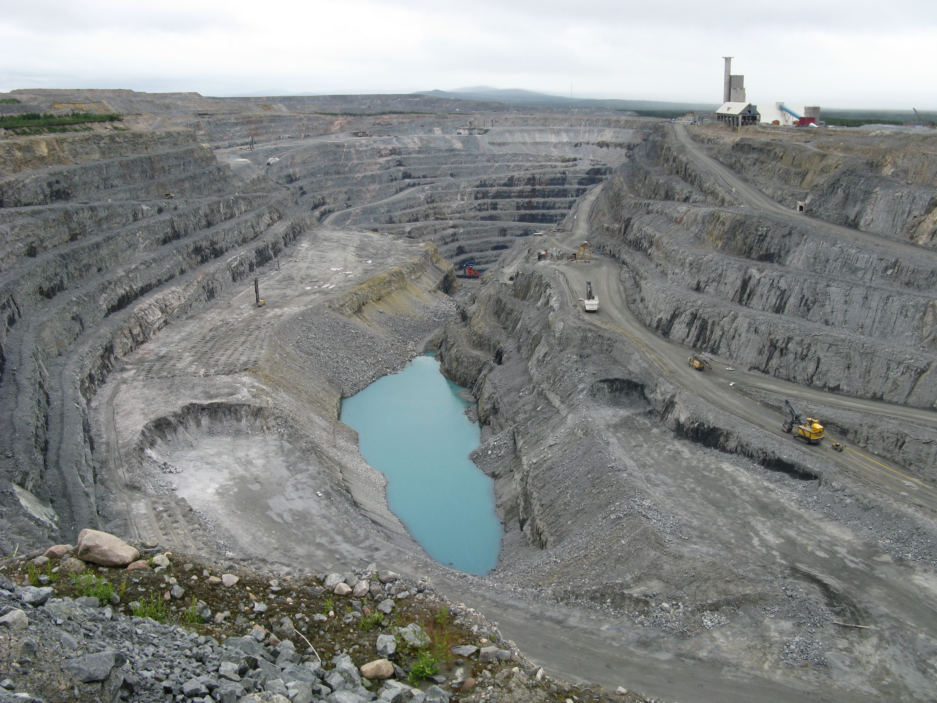 Pit of the Aitik copper mine near Gällivare in summer 2012. Photographed from the South end.